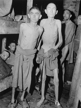 Survivors of Mühldorf Concentration Camp, a complex of subcamps of Dachau concentration camp